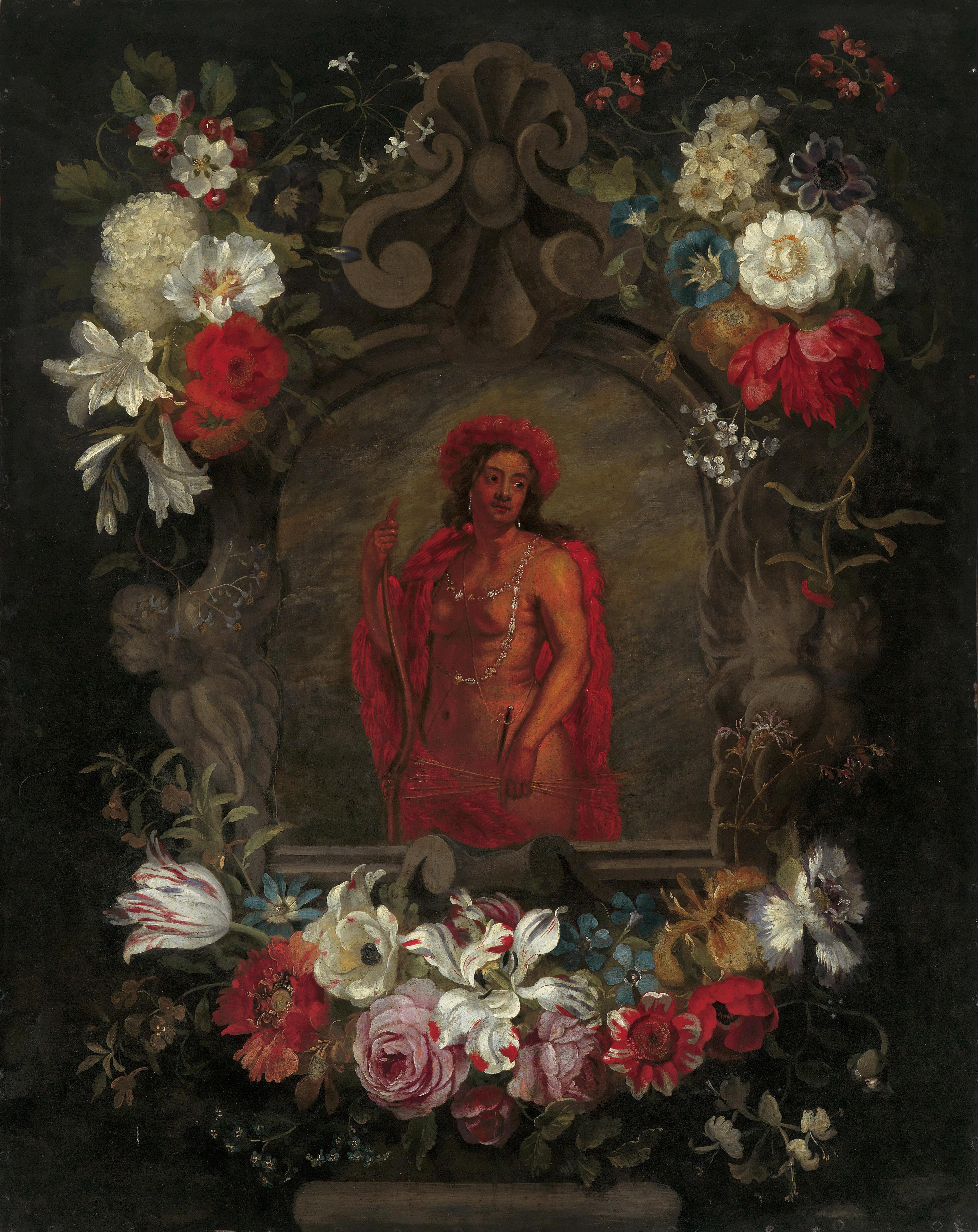 Cartouche with a personification of America, surrounded by flowers; signed and dated 'JV Kessel 1671' (on the cartouche, lower right) This image is available from the Netherlands Institute for Art Historyunder digital ID 122937. This tag does not indicate the copyright status of the attached work. A normal copyright tag is still required. See Commons:Licensing for more information.